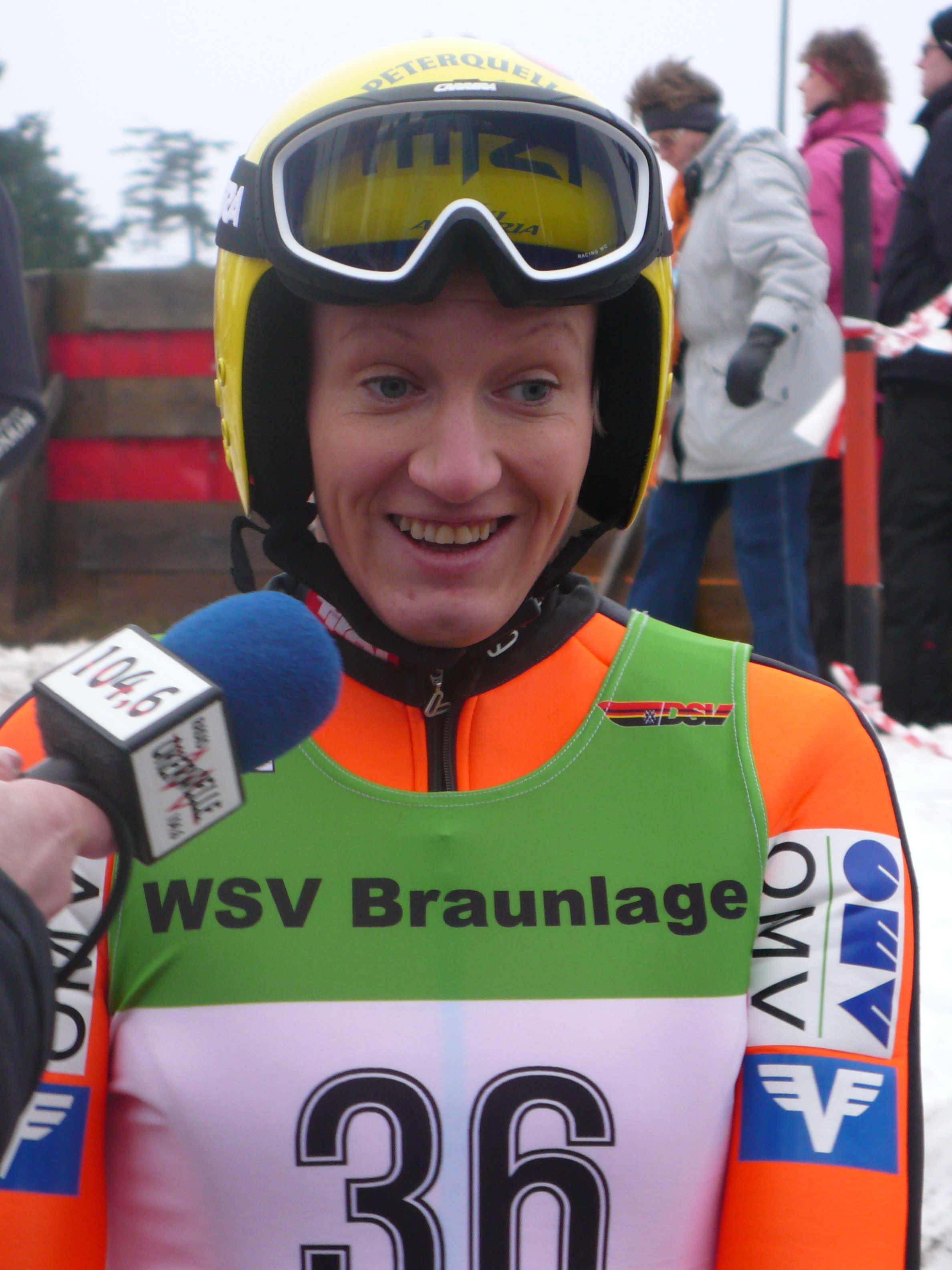 Daniela Iraschko, Braunlage